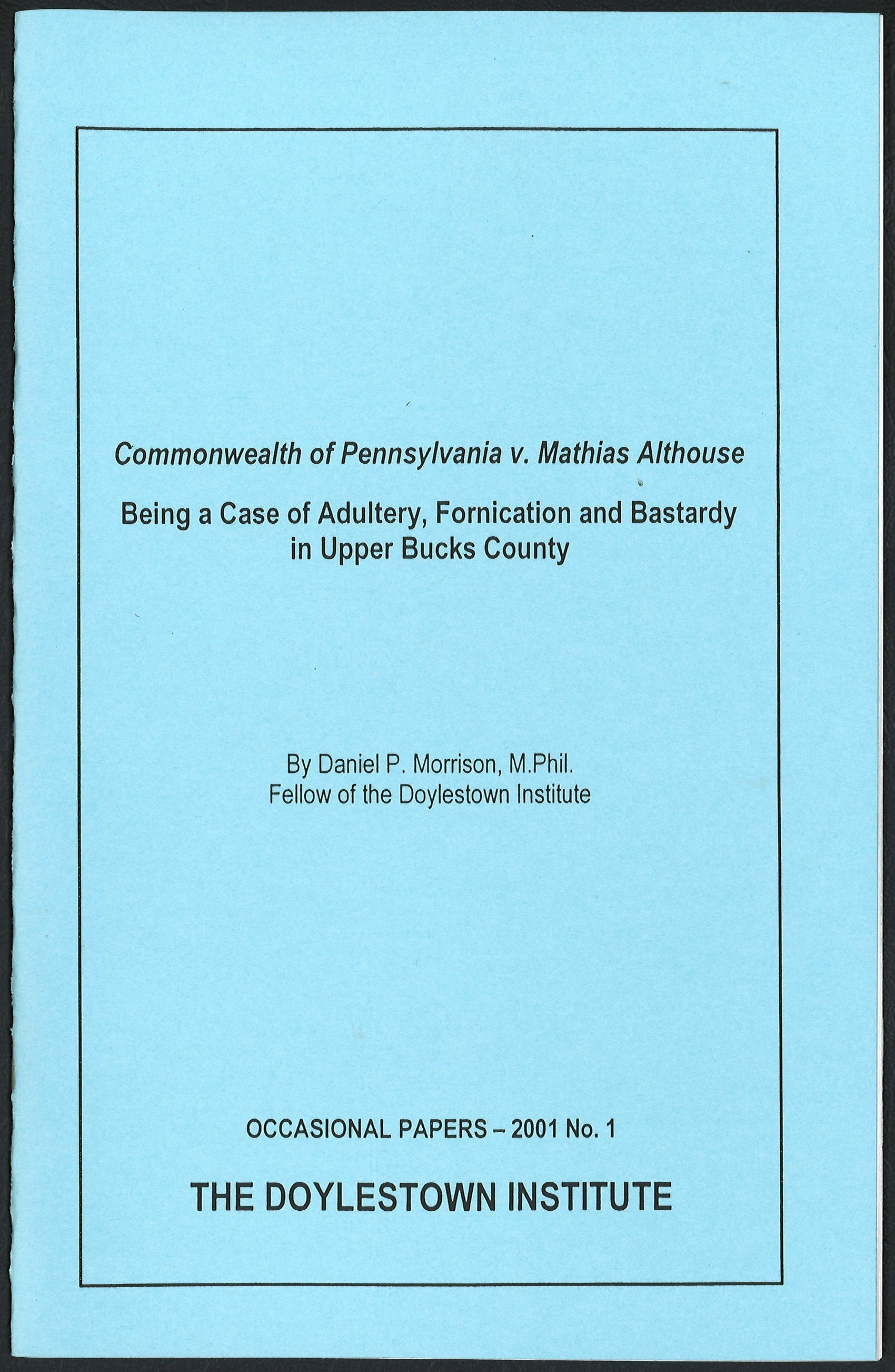 Cover of an issue of Occasional Papers of The Doylestown Institute